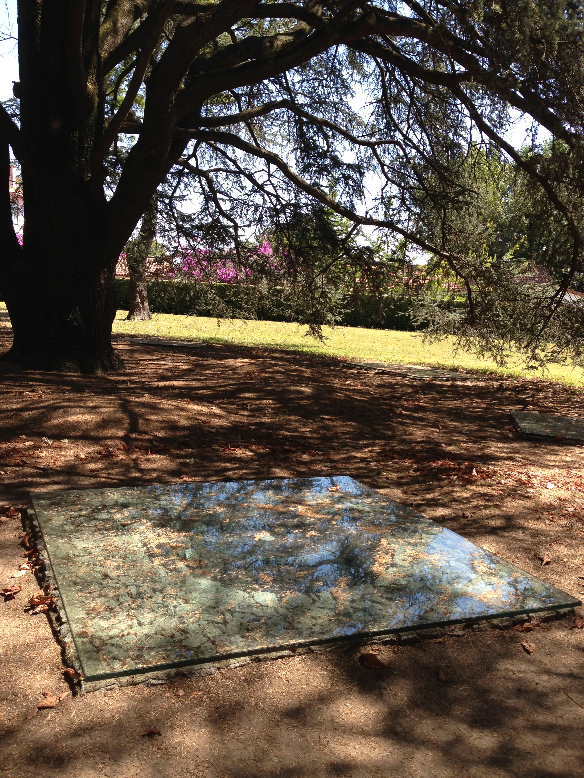 Partial view of "Ser Árvore e Arte", work by Alberto Carneiro, in Museu Serralves, Oporto.